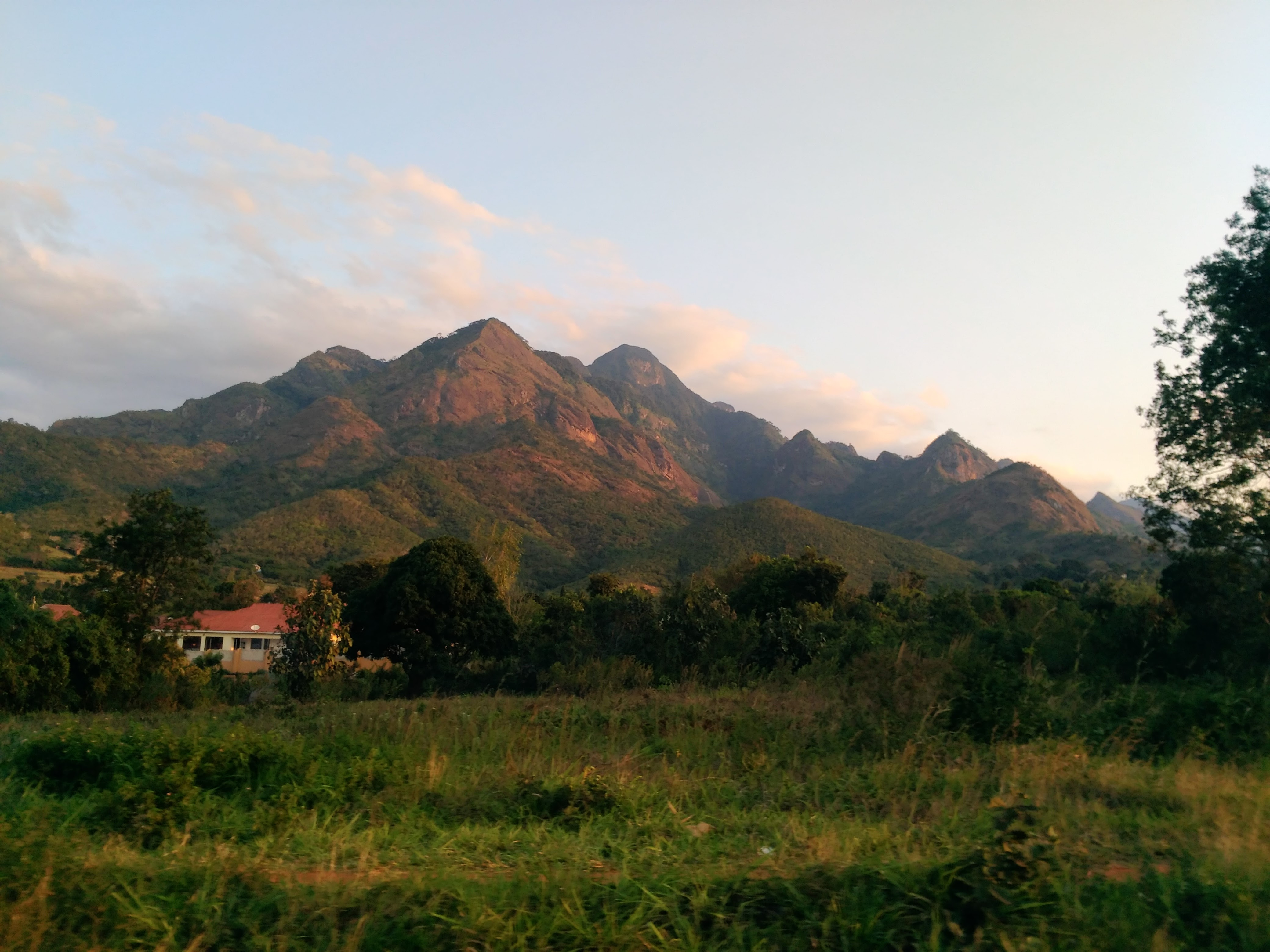 Ever visited Morogoro in Tanzania. Take time to pause and enjoy the majestic Uluguru mountains or probably take a hike through the mountain and enjoy its majestic streams and peaceful sceneries